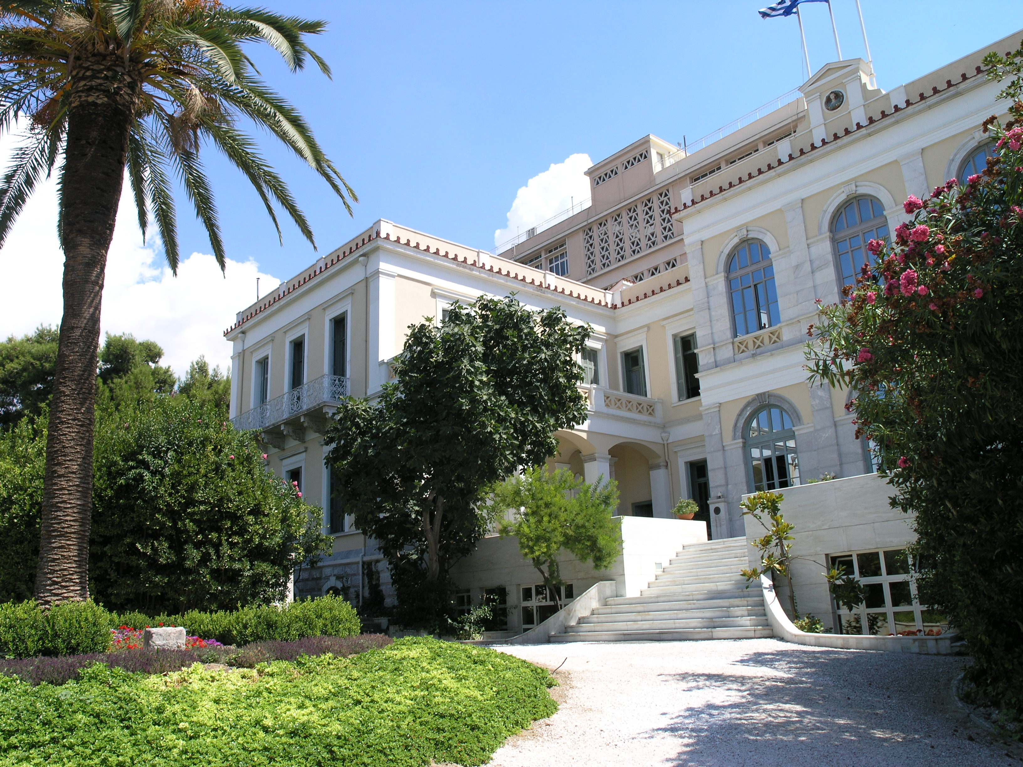 École française d'Athènes — view from the gardens. Photo taken by Marsyas 15:35, 25 August 2005 (UTC).